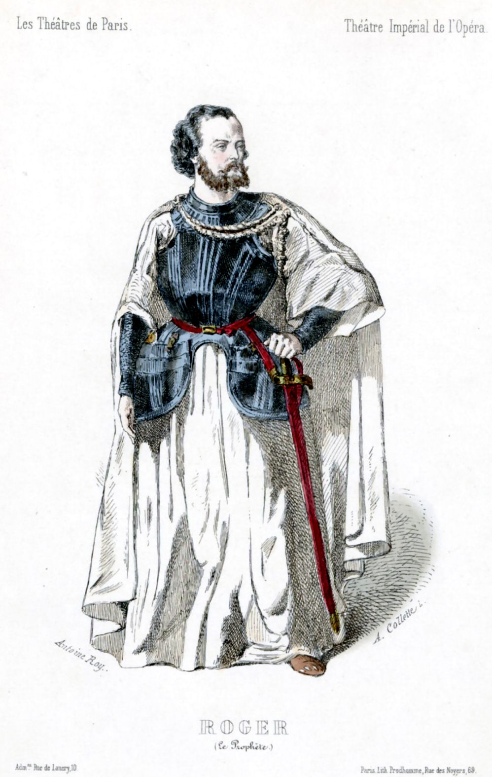 Gustave-Hippolyte Roger in Meyerbeer's Le Prophète : engraving by Alexandre Collette (1814-1876) after Antoine Roy